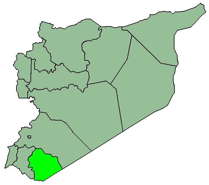 The Syrian governorate of as-Suwayda.